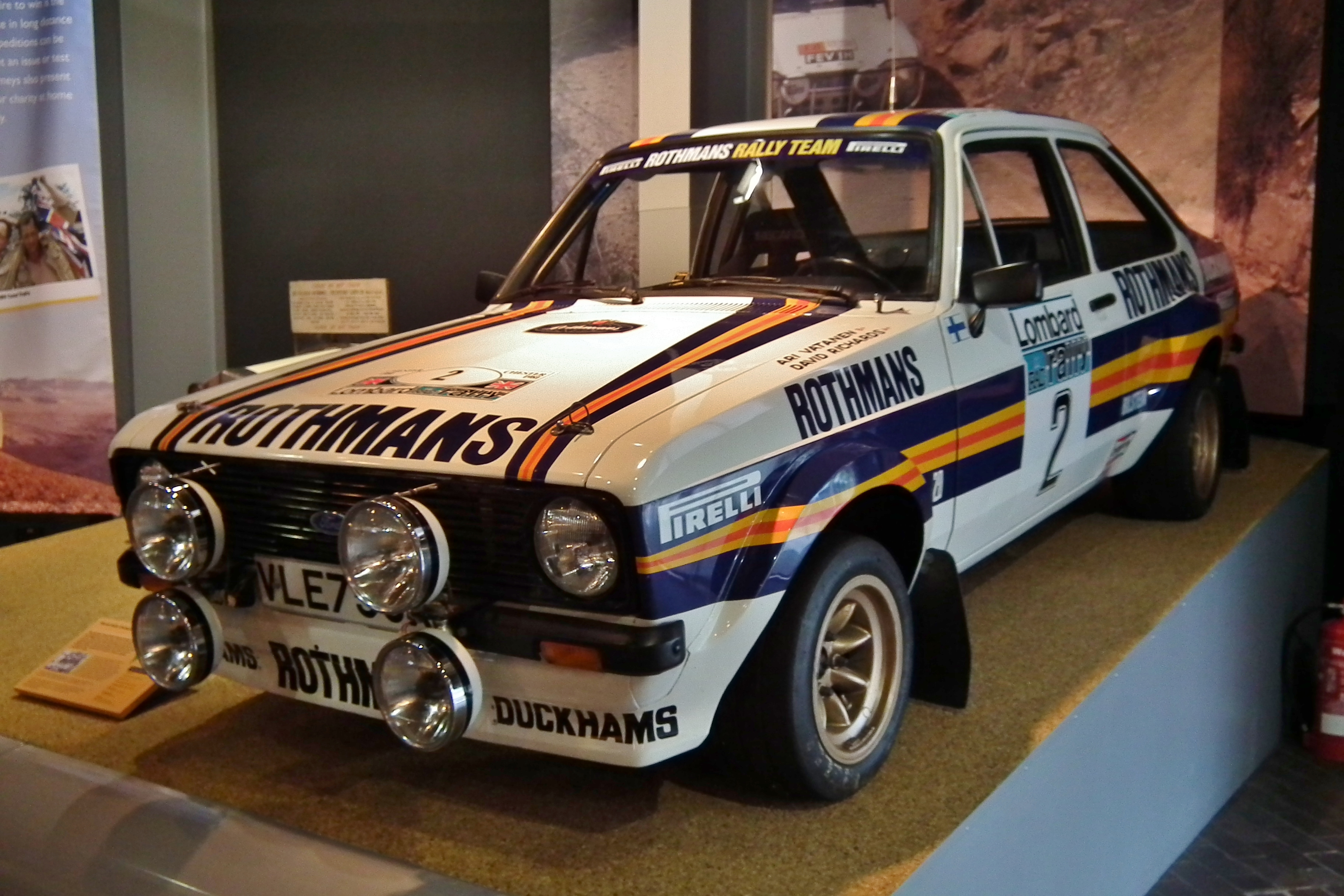 1981 Ford Escort RS Mk II rally car. Taken at the National Motor Museum in Beaulieu, Hampshire, England.